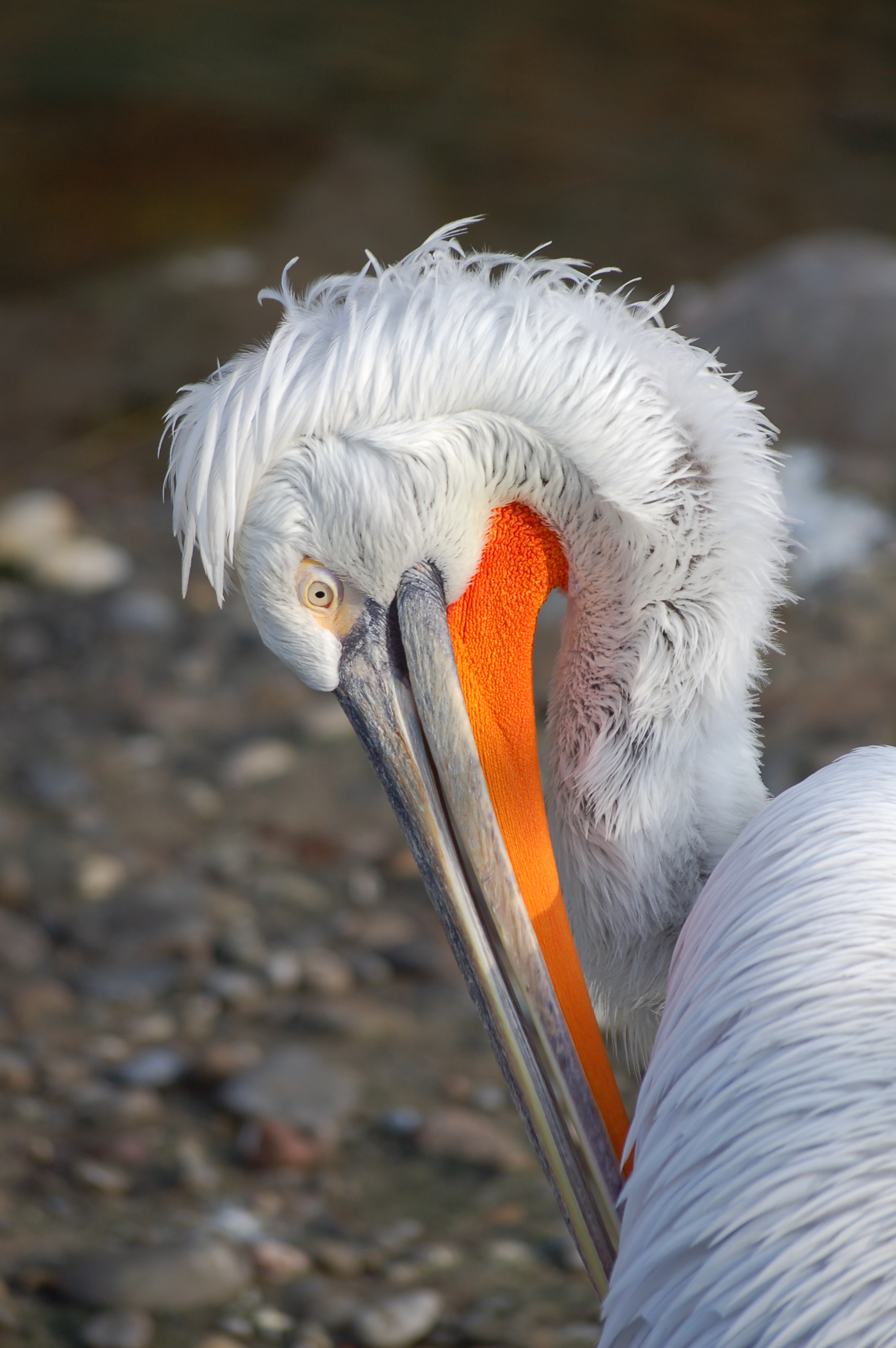 Dalmatian Pelican Pelecanus crispus